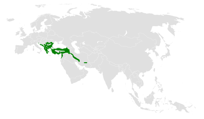 Poecile lugubris distribution map, based on